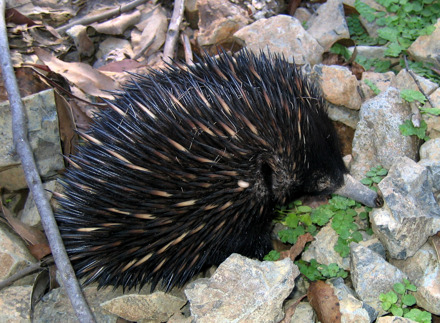 An echidna on a gravel hiking trail in Barrington Tops National Park